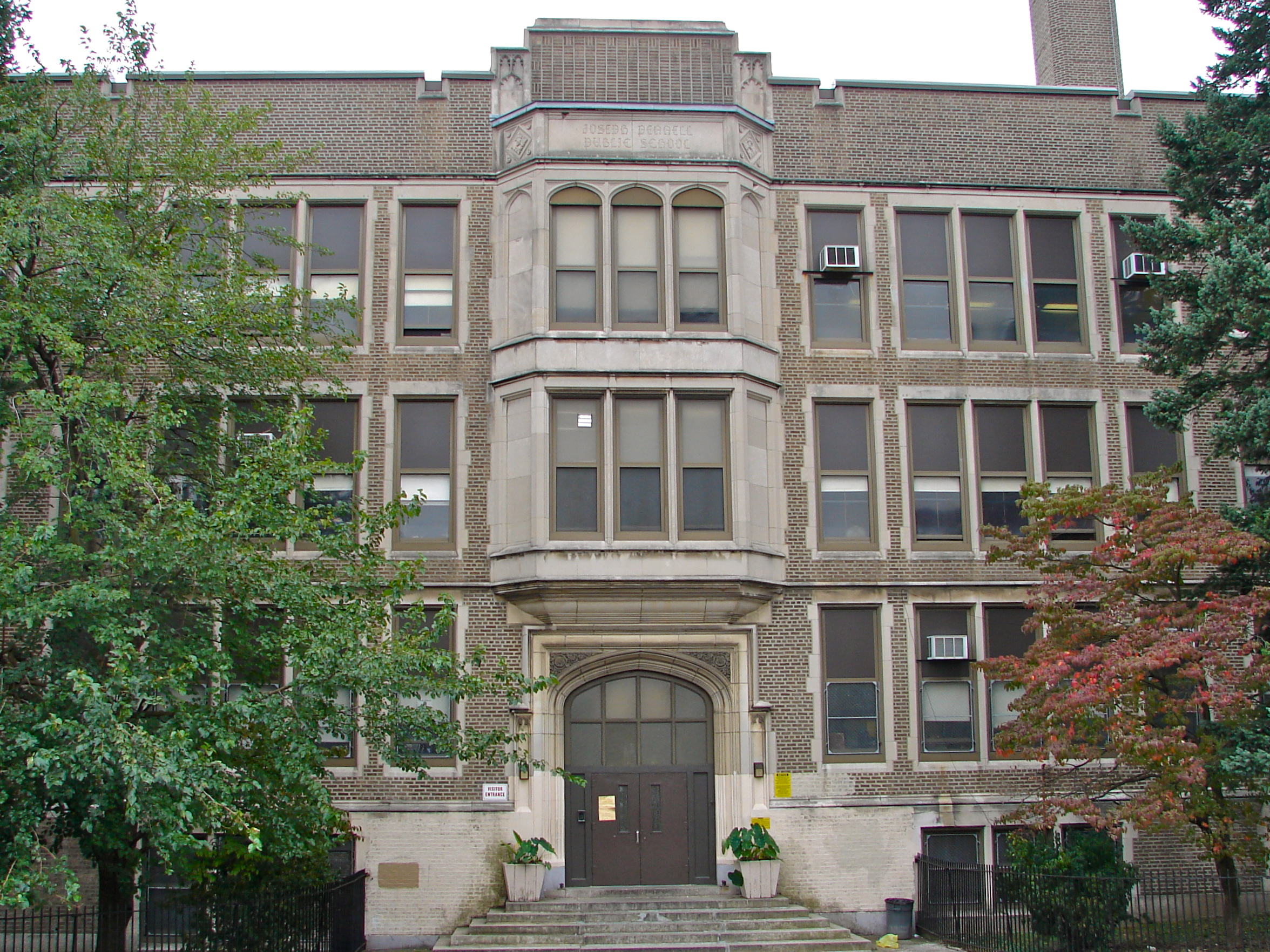 Joseph Pennell School in Philadelphia on the NRHP since November 18, 1988. At 1800 Nedro Ave. in the Belfield neighborhood of North Philly.